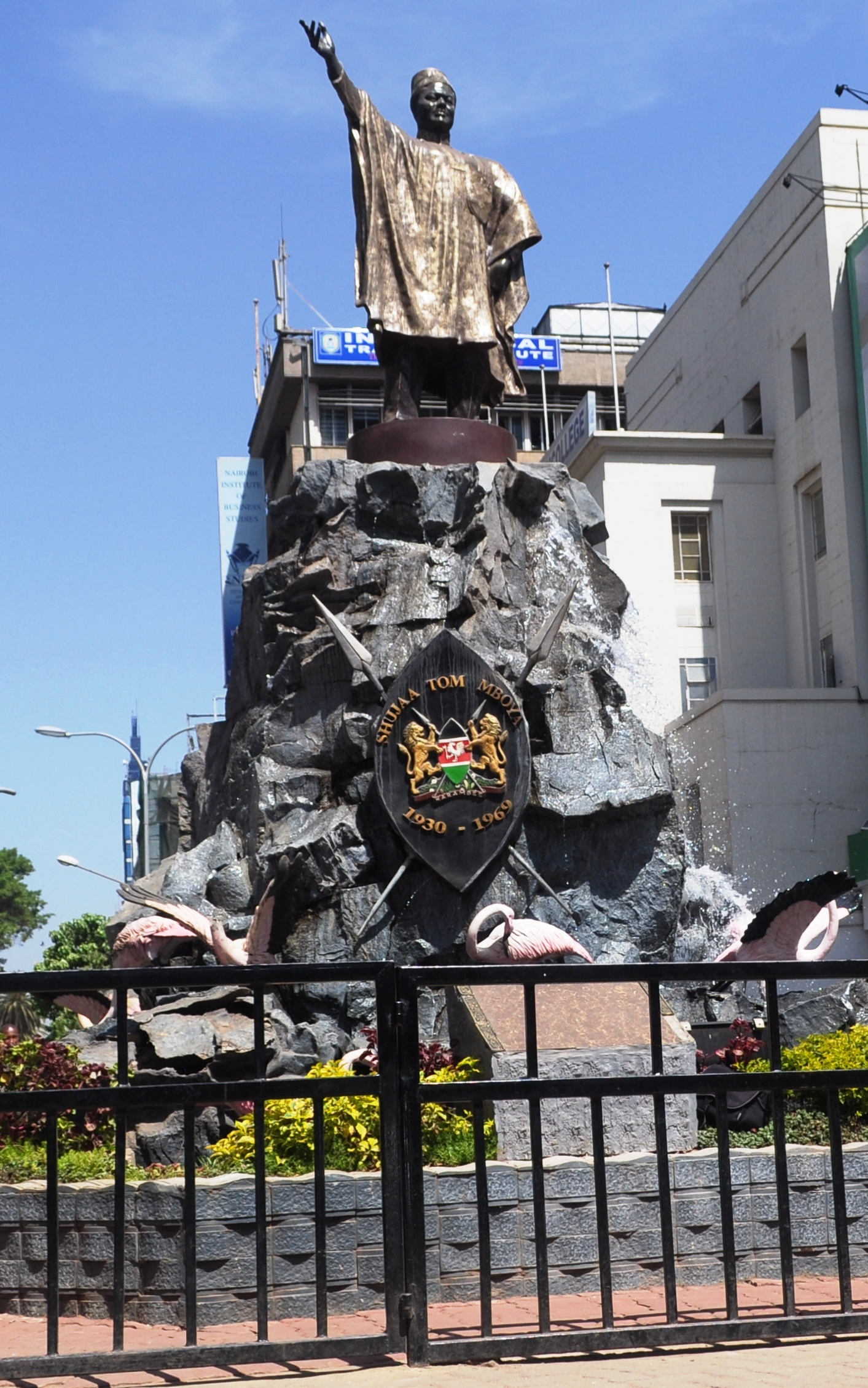 The Tom Mboya Monument is along the Moi Avenue of Nairobi Kenya. It was erected in 2011 in honor of Tom Mboya, a Kenyan Minister who was assassinated in 1969.Unknown